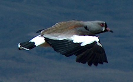 chilean lapwing Vanellus chilensis, Family Charadridae, flying, Calafate, Argentina